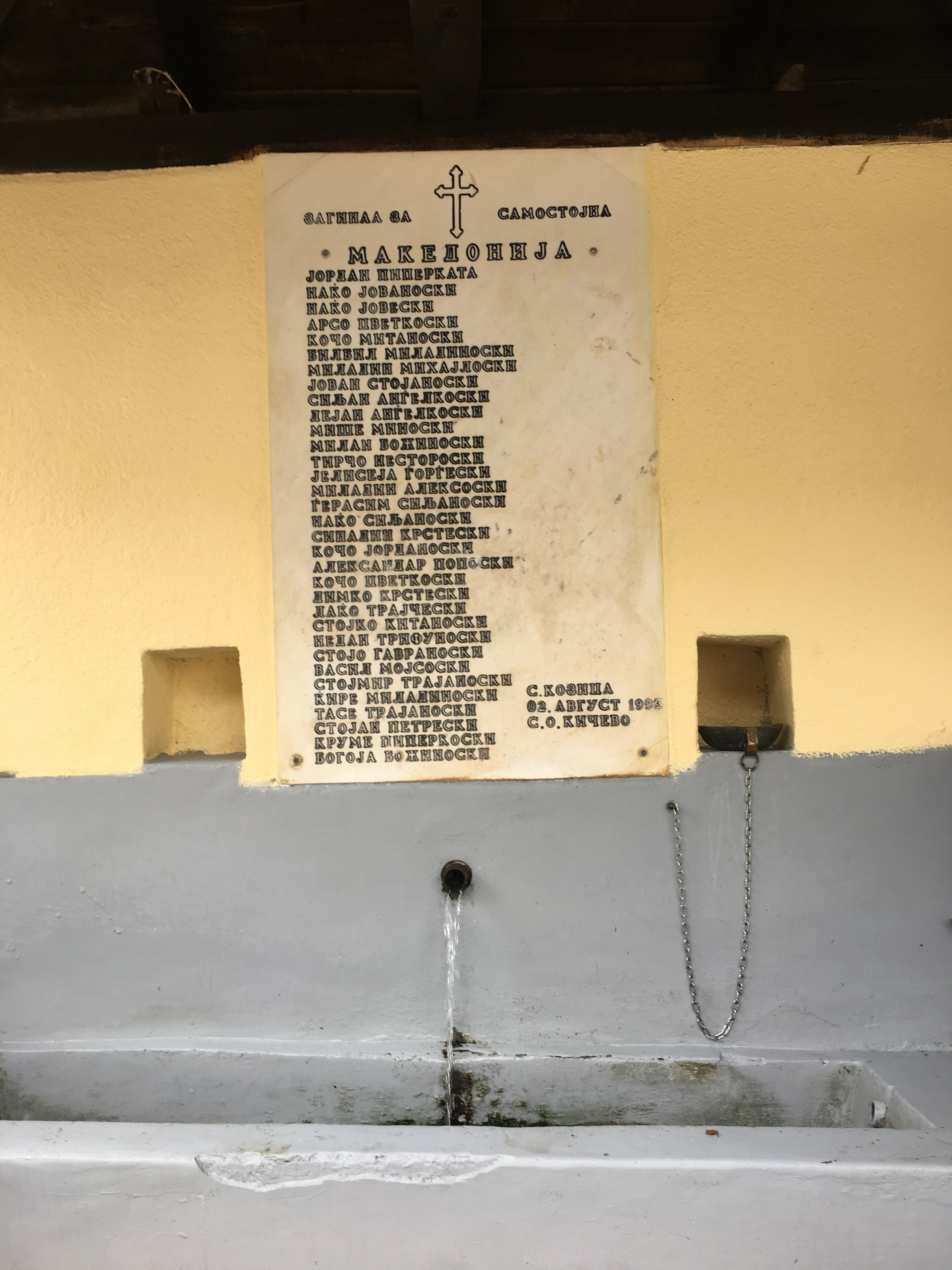 Wikiexpedition to Kopačka